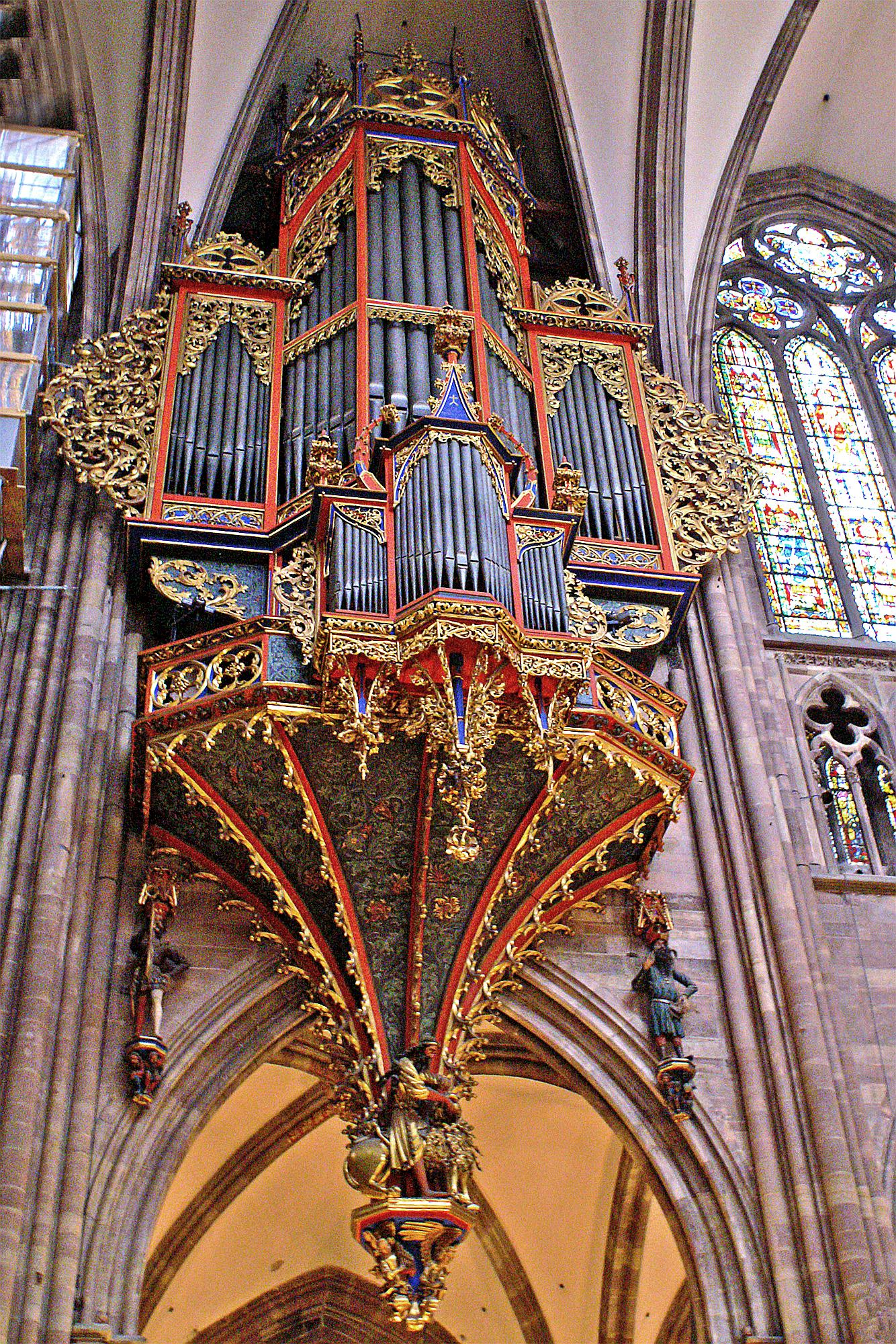 Cathedral Notre Dame de Strasbourg - Organ